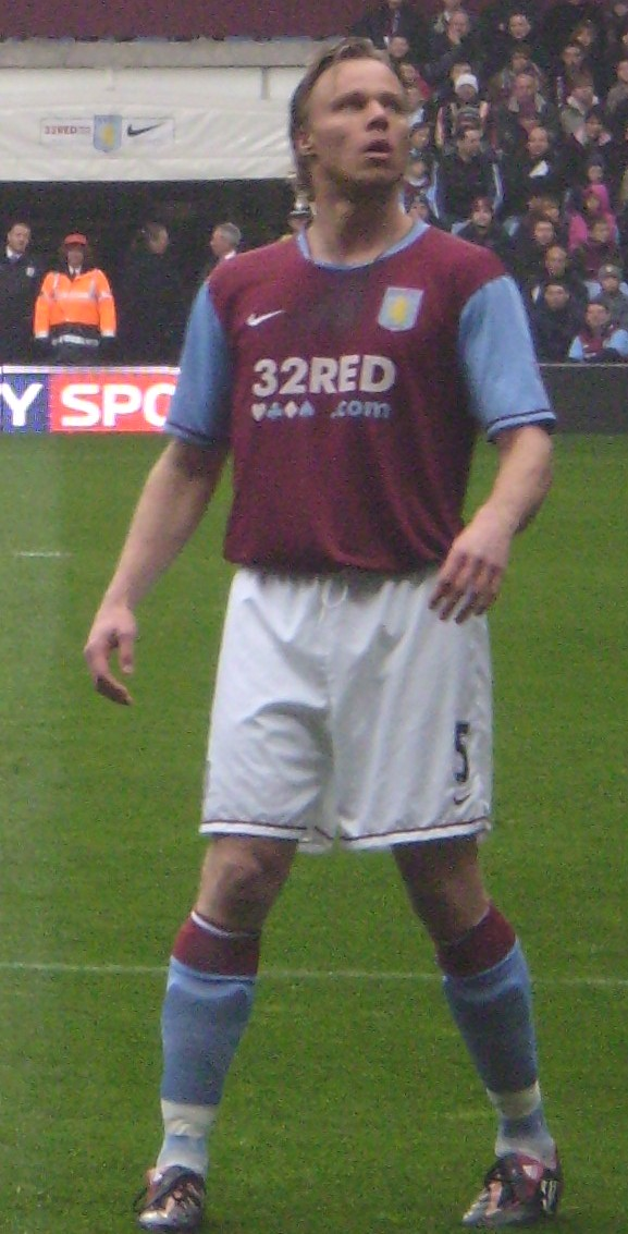 Denmark football (soccer) defender Martin Laursen of Aston Villa F.C. during the Premier League match against Birmingham City F.C.